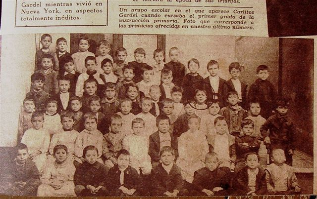 Carlos Gardel (circled) photographed with his schoolmates when he attended the primary school. The photo was given to the magazine by Gardel's mother Berta Gardes, and published in 1936 for the first time.